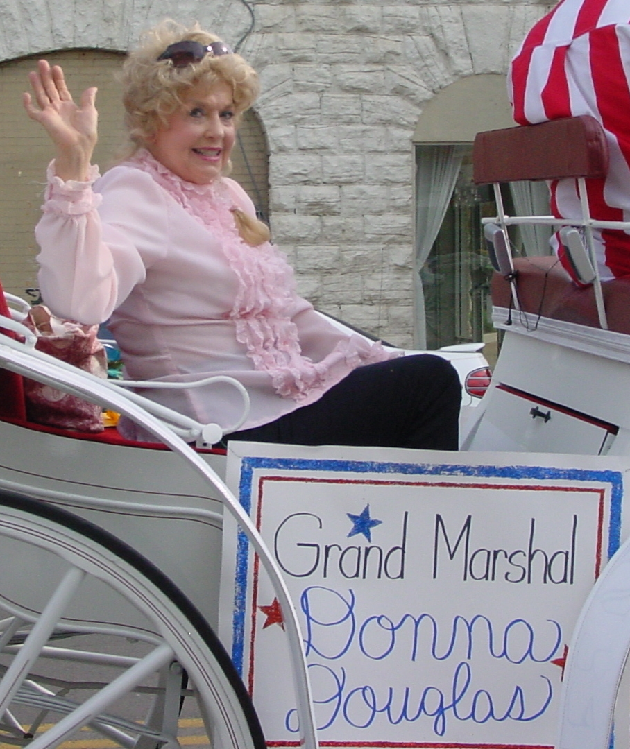 This photograph is of Donna Douglas in the Salute to Disney parade, in which she was the Grand Marshal, that took place in Lawrenceburg, Tennessee on June 30, 2007.